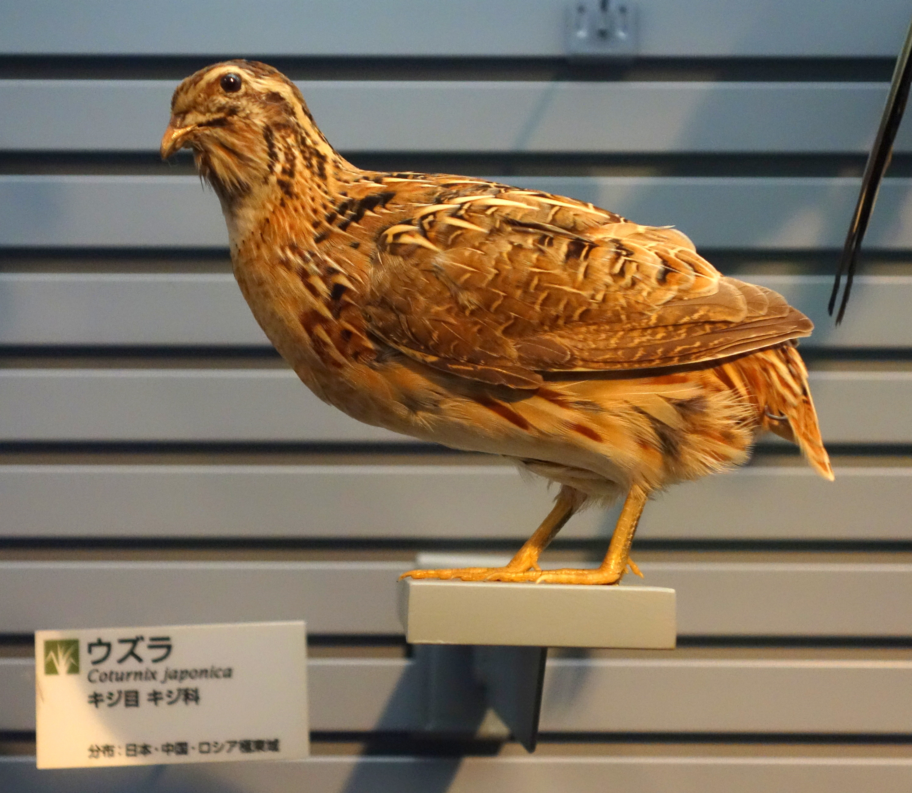 Exhibit in the National Museum of Nature and Science, Tokyo, Japan.